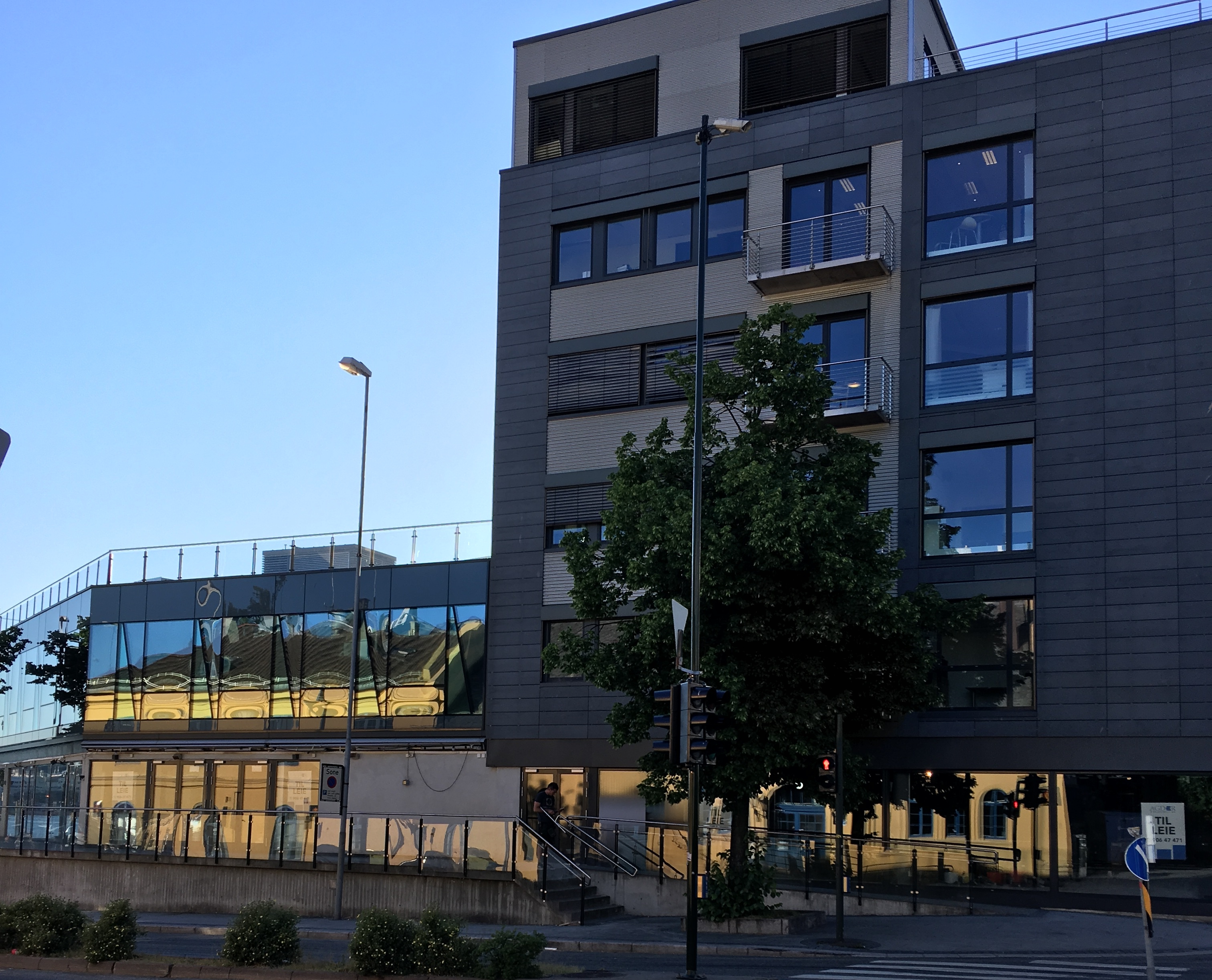 Havnekvartalet, Kristiansand